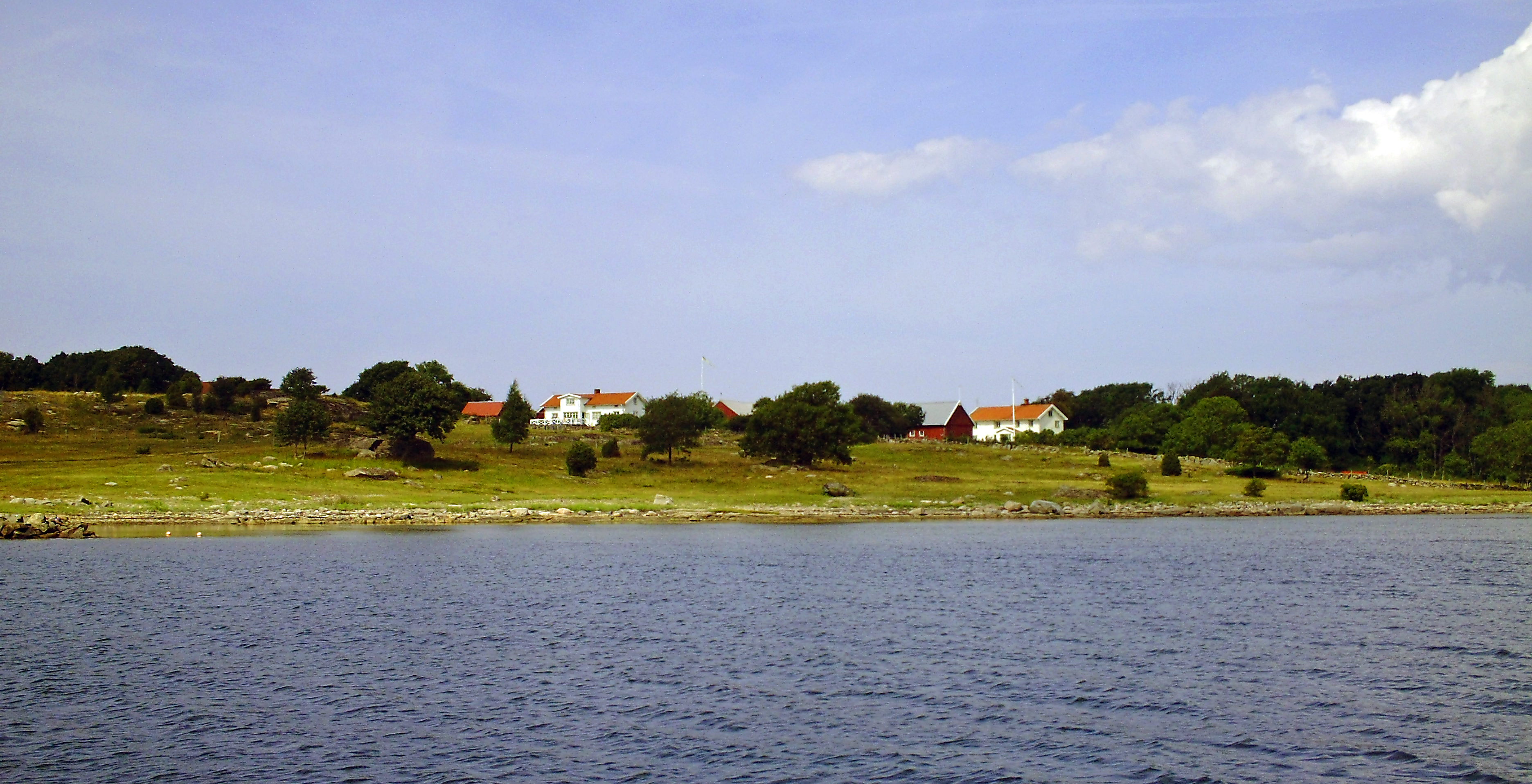 Vendelsö, as seen from Vendelsöfjorden.